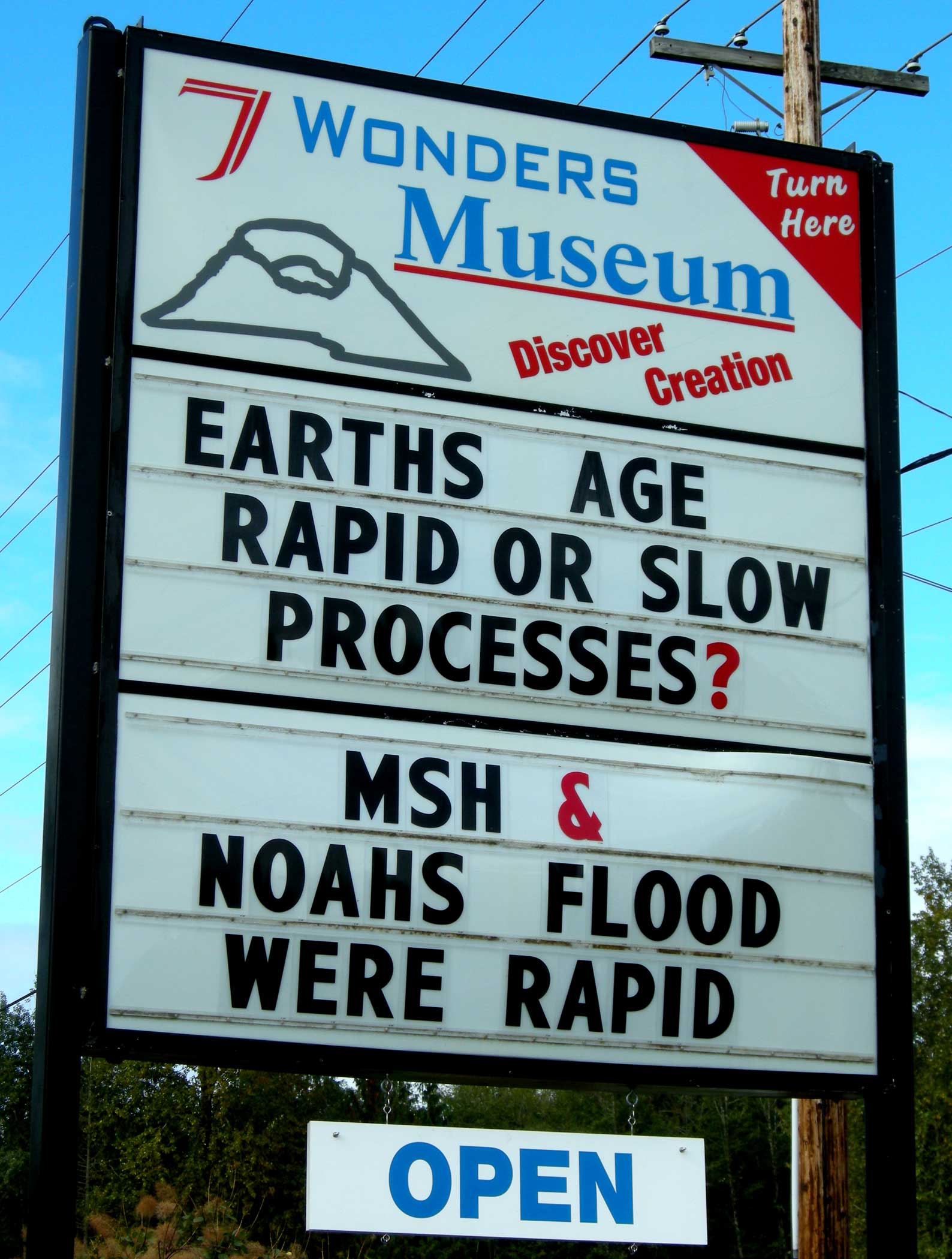 Sign at the 7 Wonders Museum, east of Silver Lake, Washington